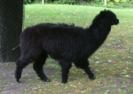 Alpaca at the Old Poznań Zoo, Poland.